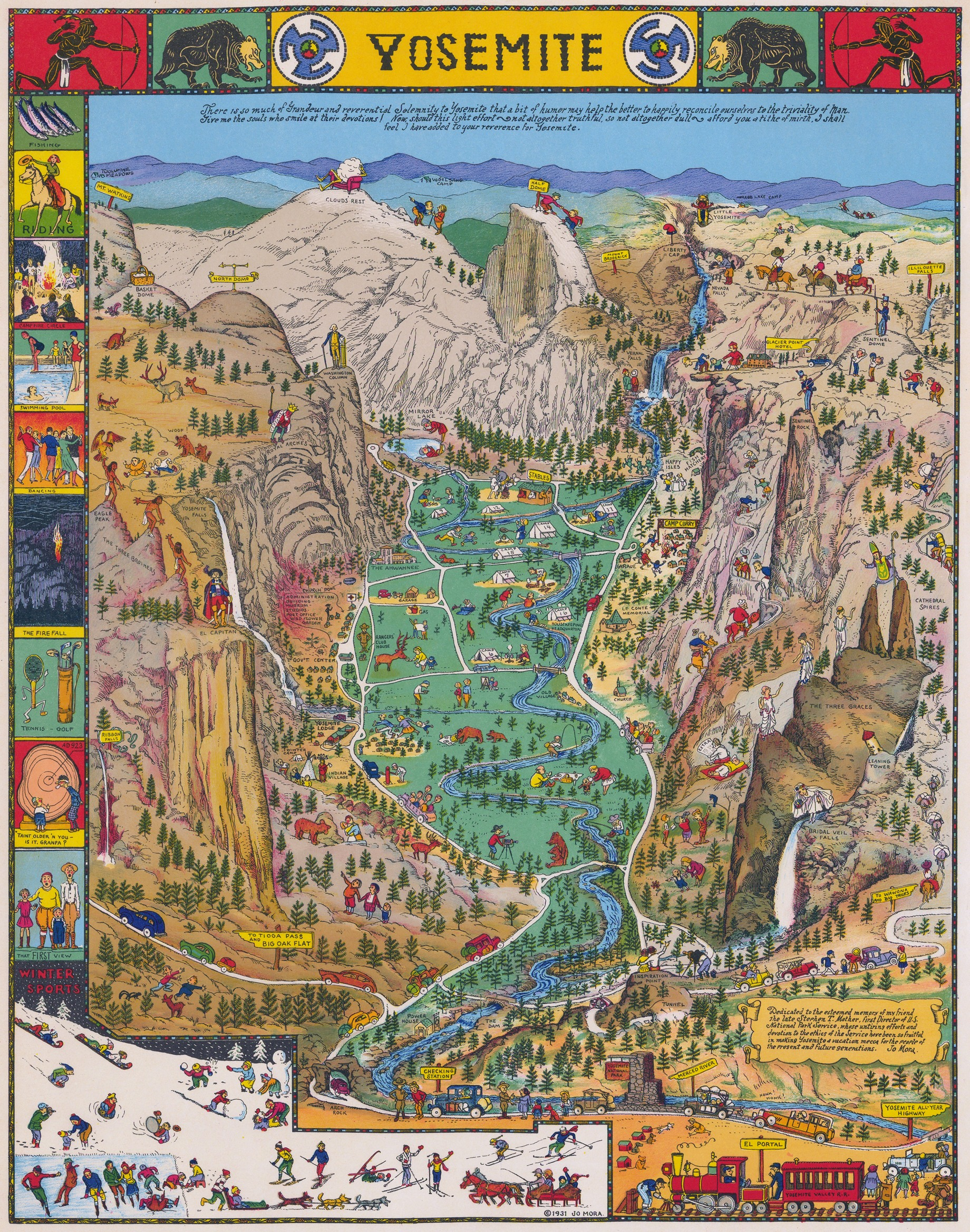 Decorative pictorial map of Yosemite Valley drawn in 1931 by Jo Mora (1876-1947).